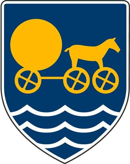 Shield of Odsherred Municipality (2007) with depiction of Trundholm sun chariot